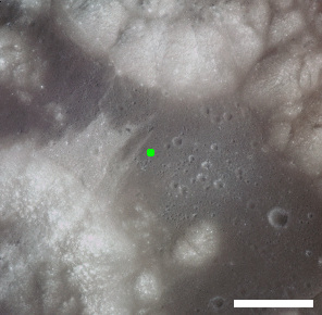 Green dot shows location of Brontë, Taurus-Littrow Valley, on the moon. Scale bar at lower right is 5 km.